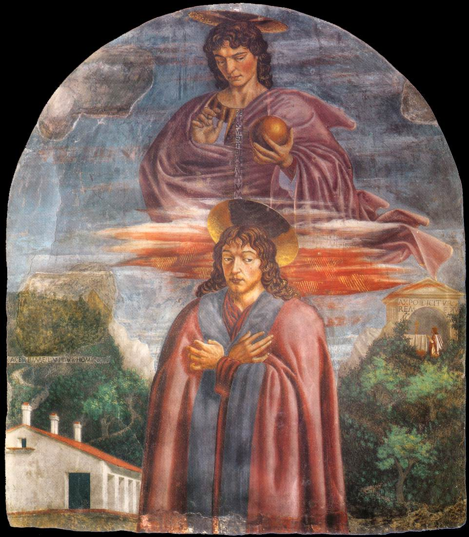 St Julian and the Redeemer. frescomedium QS:P186,Q25631150. Florence, Santissima Annunziata.